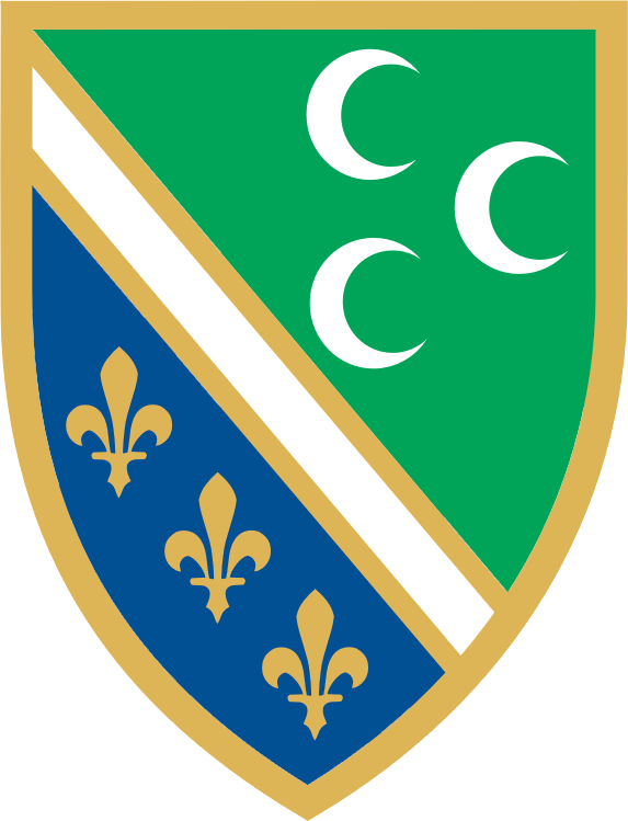 it is my own work